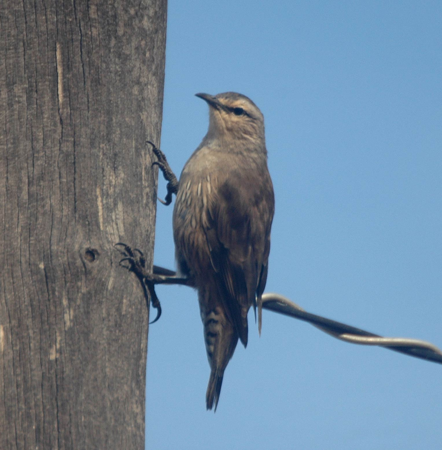 Brown Treecreeper (Climacteris picumnus) Bowra, SW Queensland, Australia